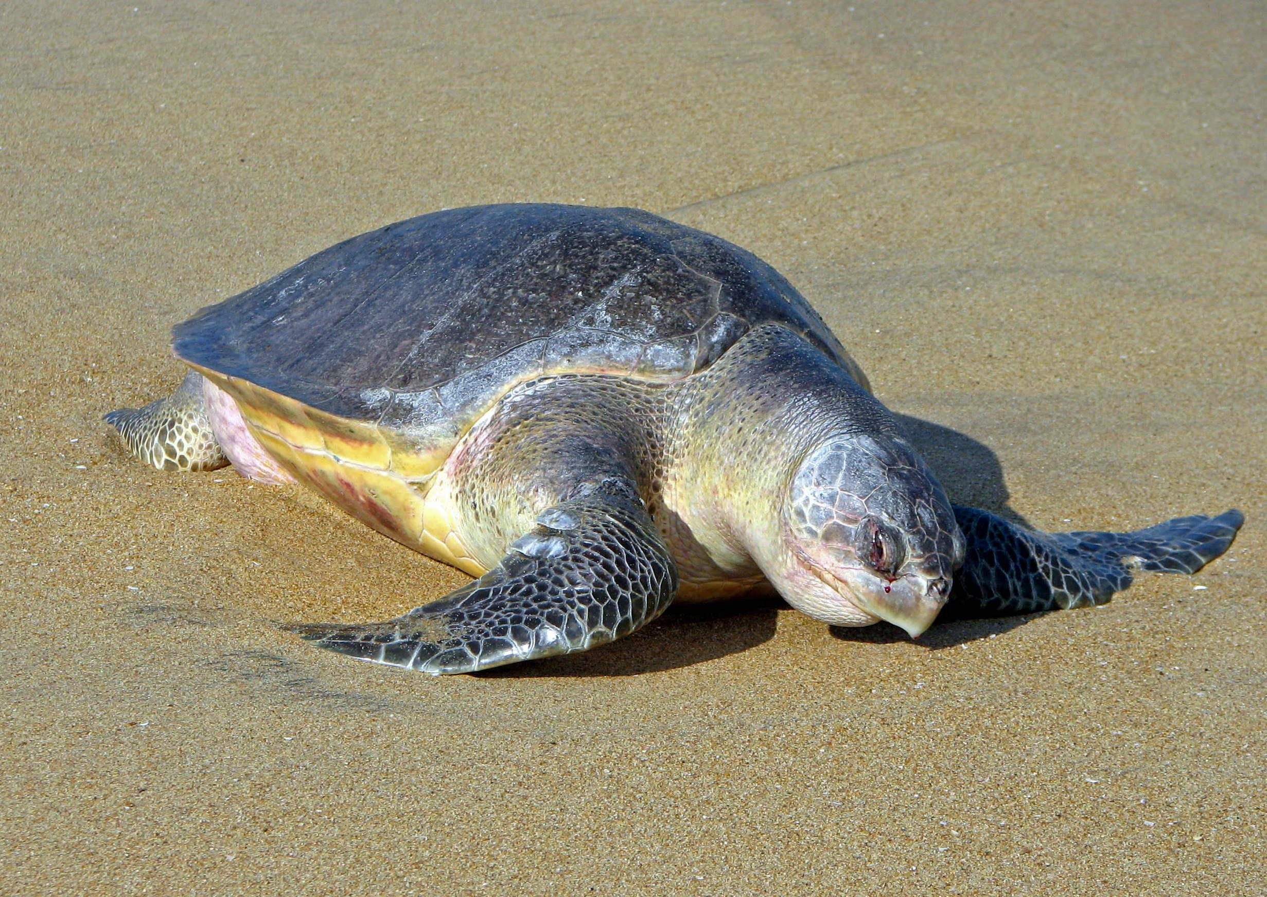 Injured (maybe dead) Olive Ridley turtle, near Mahabalipuram, Tamil Nadu, India